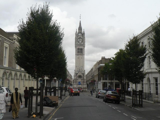 Gravesend: clock tower This is the view down the last bit of The Grove.